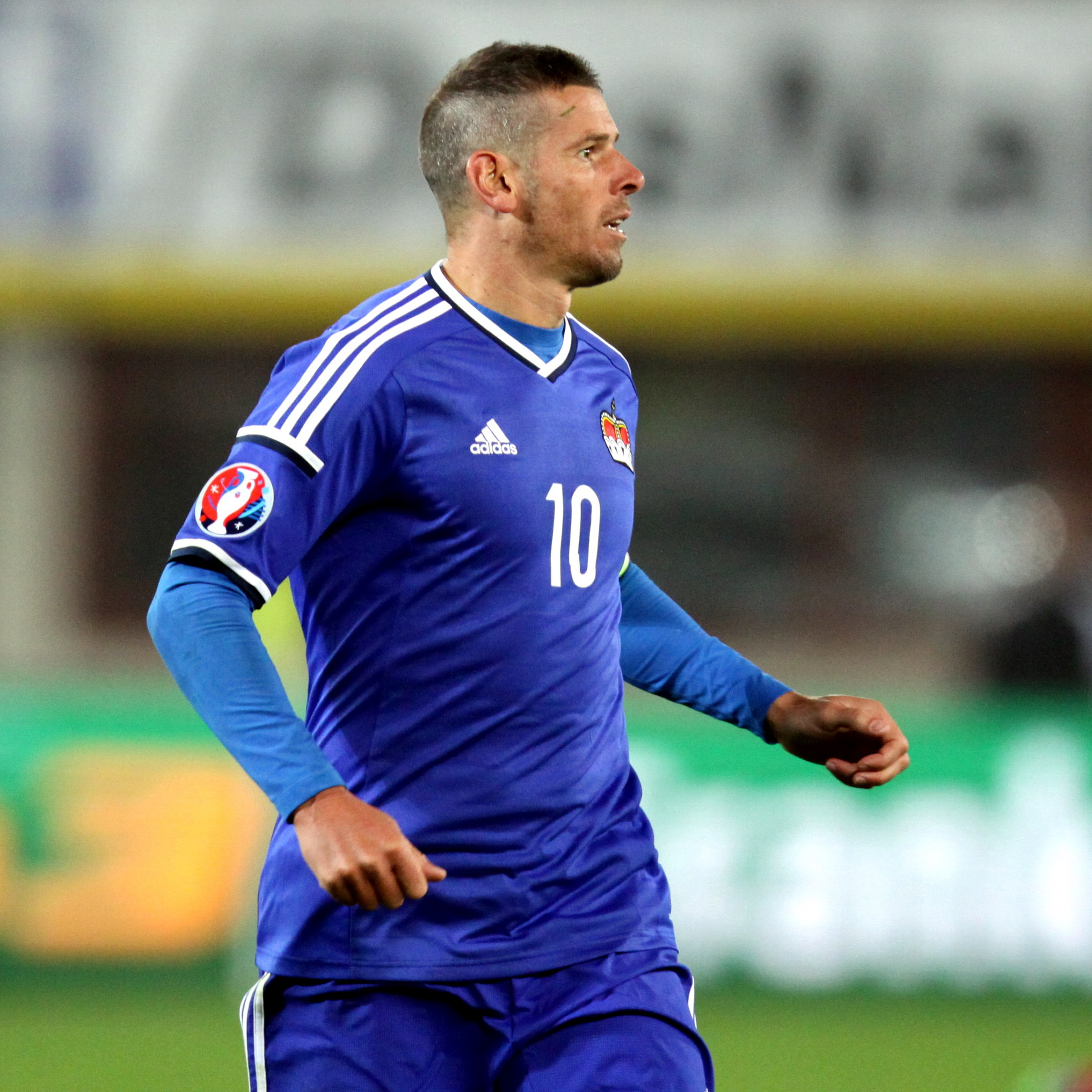 UEFA Euro 2016 qualifying, Group G – Austria (red shirts) vs. Liechtenstein (blue shirts) 3–0 (1–0) on 2015-10-12 in Ernst-Happel-Stadion, Vienna – The photo shows Mario Frick.